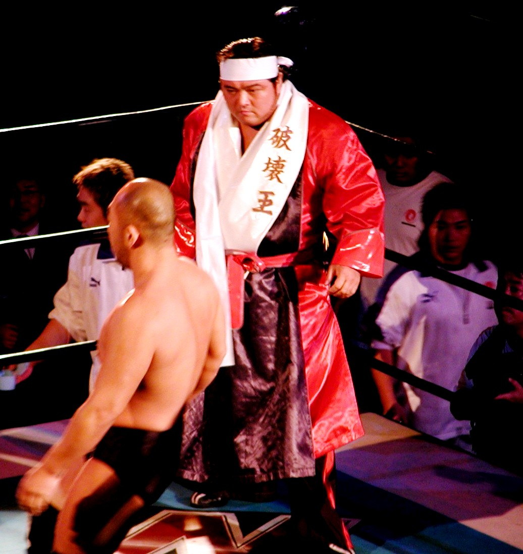 Shinya Hashimoto at WJ event, at the Korakuen Hall on January 5, 2004.